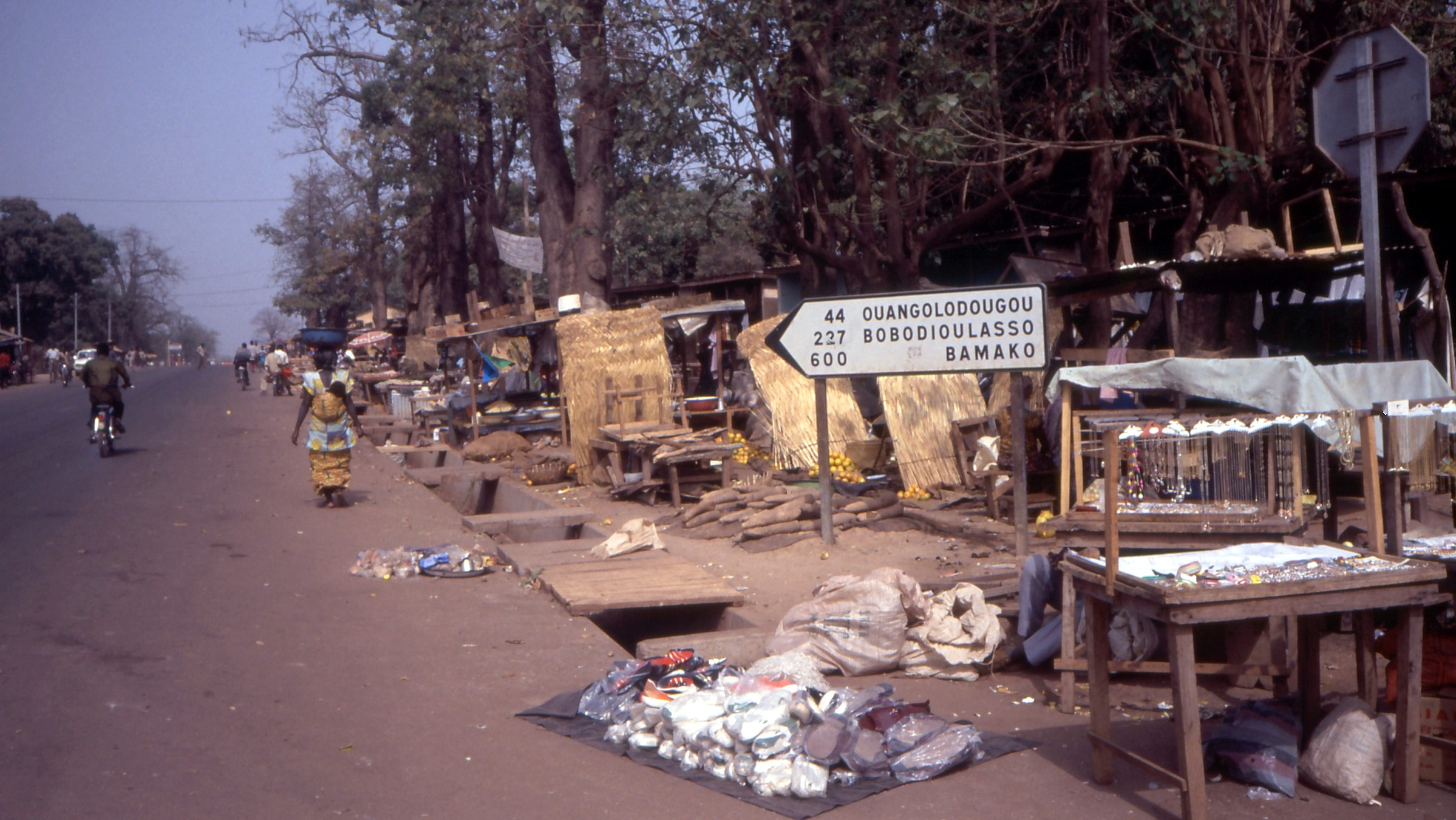 Market in Ferkéssédougou, Ivoiry Coast, 1990.